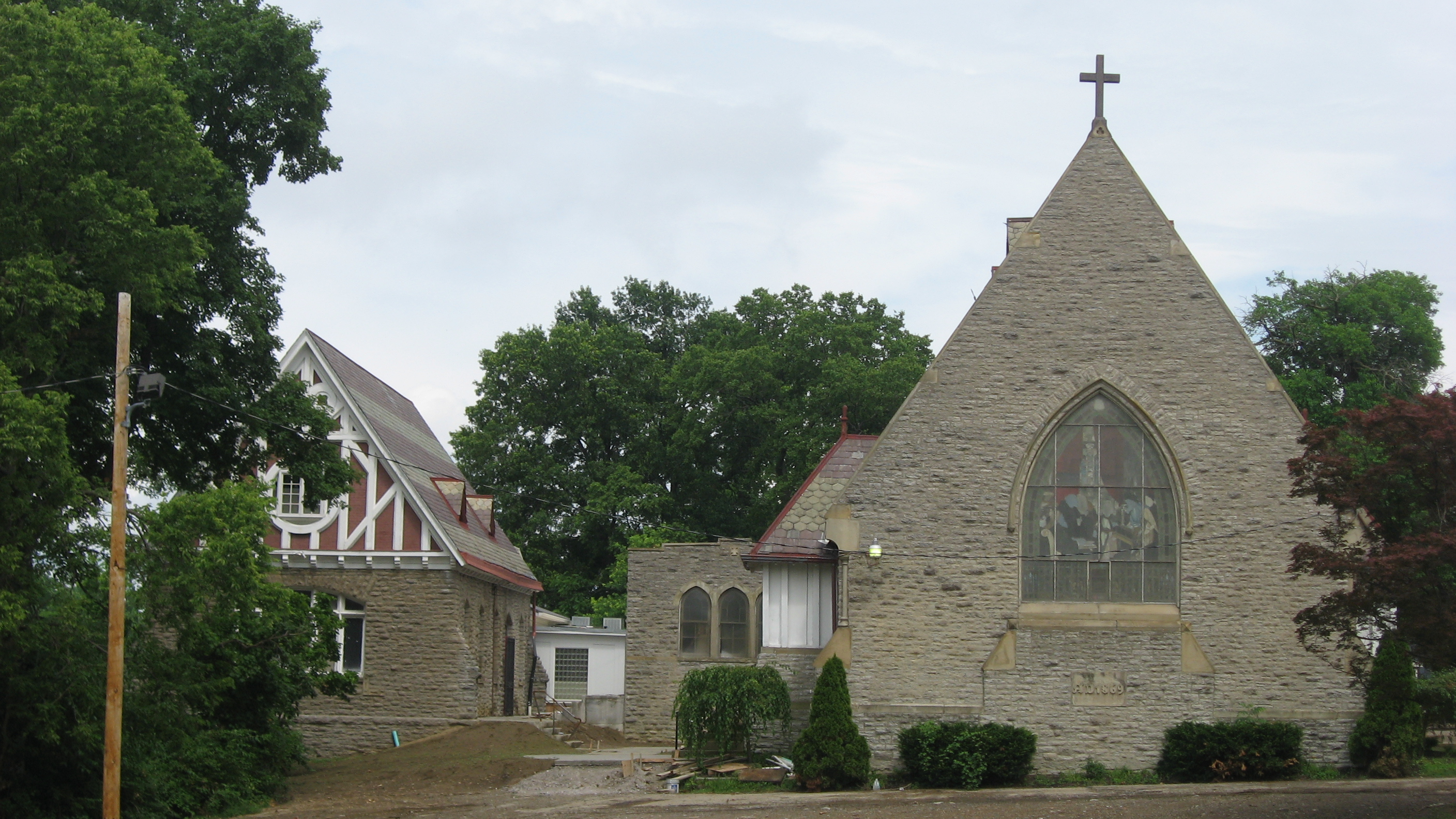 Front of the former Grace Church (also named "St. Michael and All Angels Episcopal Church"), located at 3626 Reading Road (U.S. Route 42) in Cincinnati, Ohio, United States. Built in 1869, it is listed on the National Register of Historic Places.